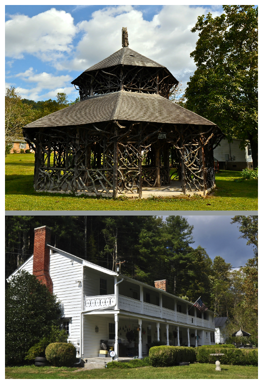 National Register of Historic Places in Alleghany Springs, Virginia. Located at or near Alleghany Springs, Montgomery County, Virginia. Top: Alleghany Springs Springhouse Bottom: William Barnett House